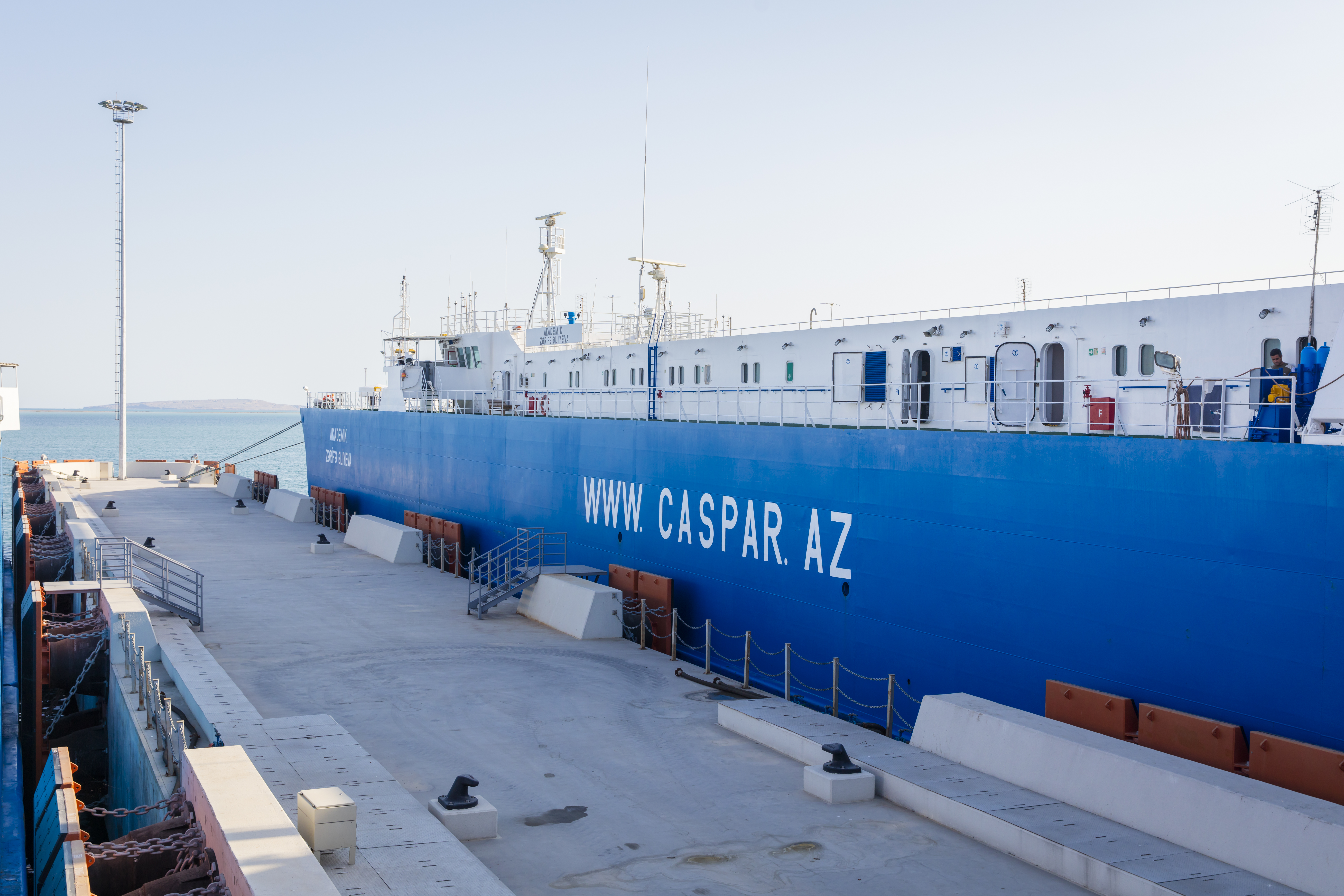 The new Port of Baku at Alat